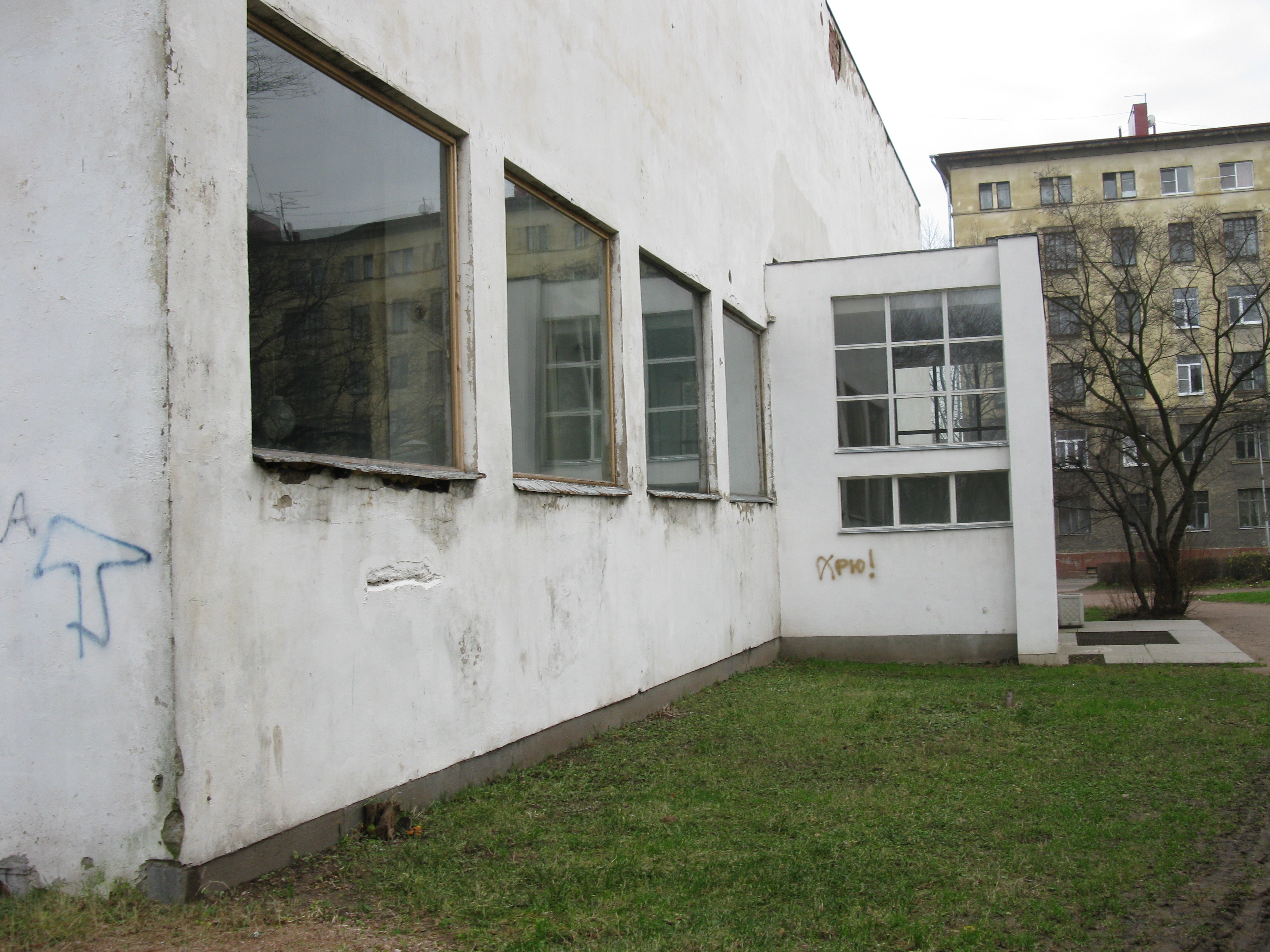 View of a side of the Vyborg Municipal Library in November 2008